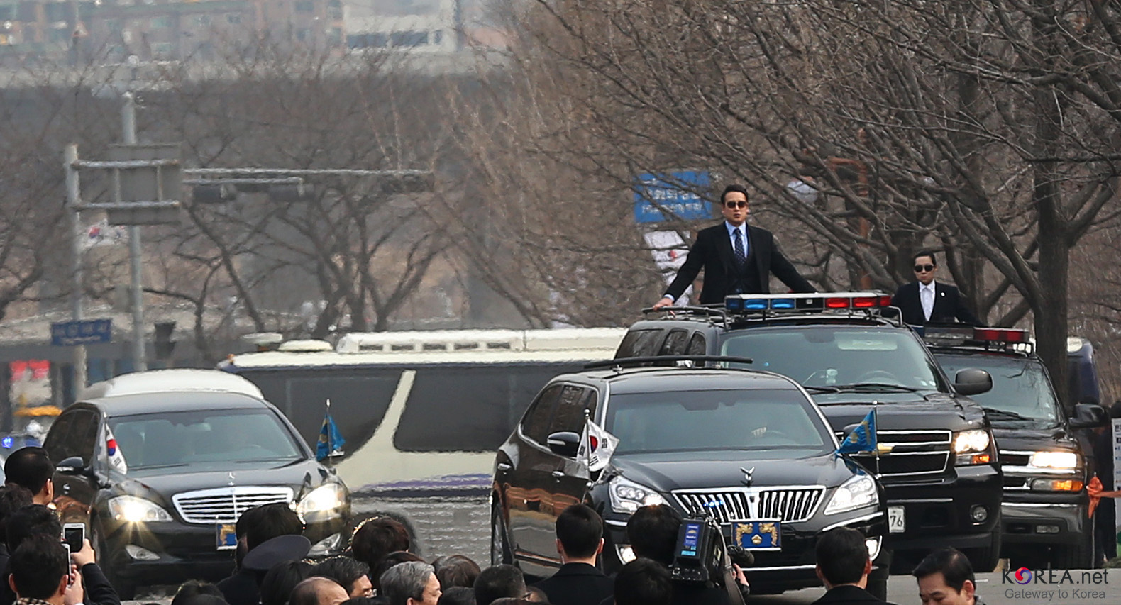 The inauguration ceremony for Park Geun-hye, South Korea's 18th, and first female, President.